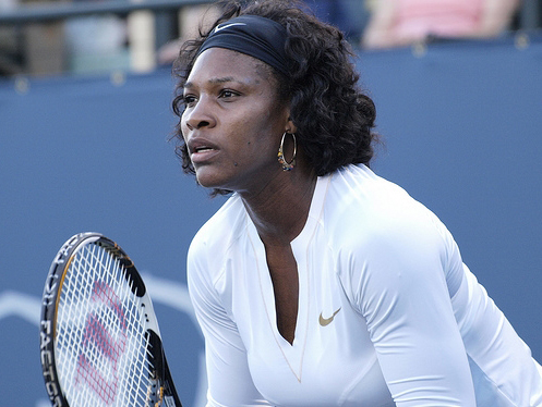 Serena Williams at the U.S. Open Series at Stanford 2008 playing Michelle Larcher de Brito.